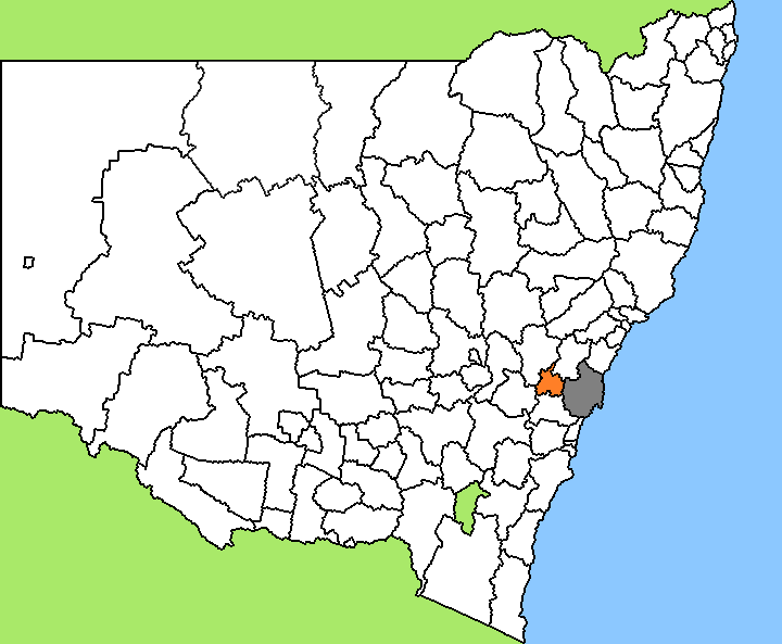 Map of New South Wales/Australia, LGA of City of Blue Mountains highlighted